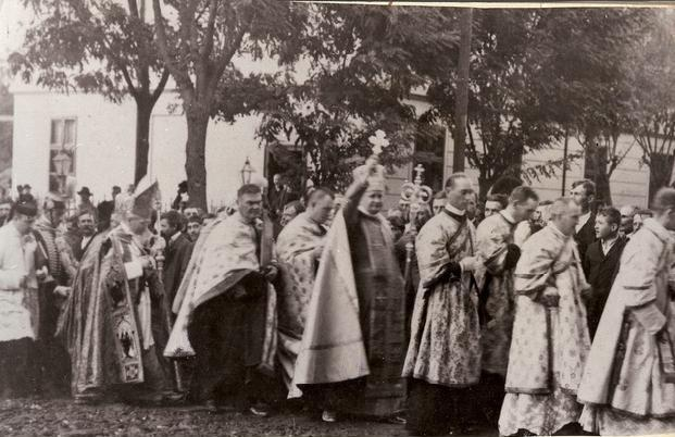 The consecration of the first bishop of the Greek Catholic Diocese of Hajdúdorog, István Miklósy. The ceremony was held on the 5th of October 1913 in Hajdúdorog. On the picture the bishop holding his cross high gives blessings to the crowd. Mihály Jaczkovics, episcopal vicar can be seen behind him.